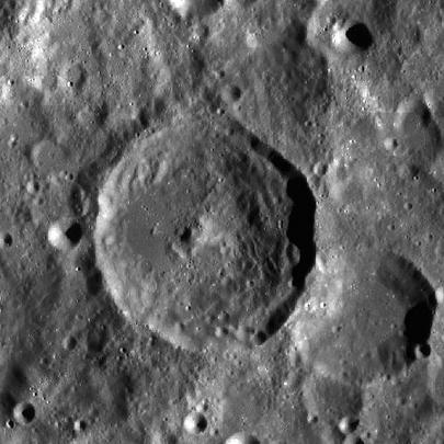 LROC . Krasovskiy and satellite J .